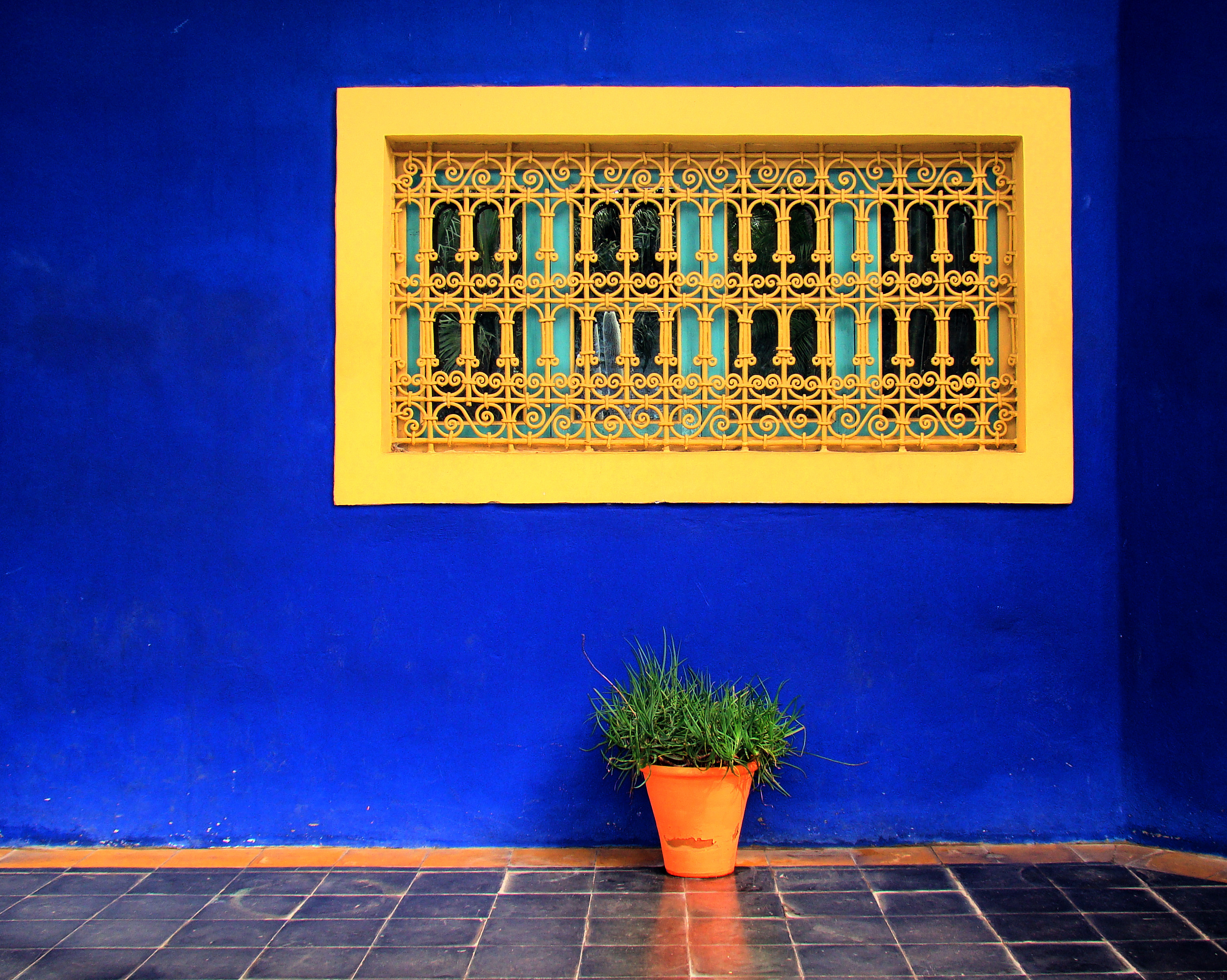 An example of the use of contrast between yellow and cobalt blue, a recurring theme in the Majorelle Garden in Marrakech, Morocco.